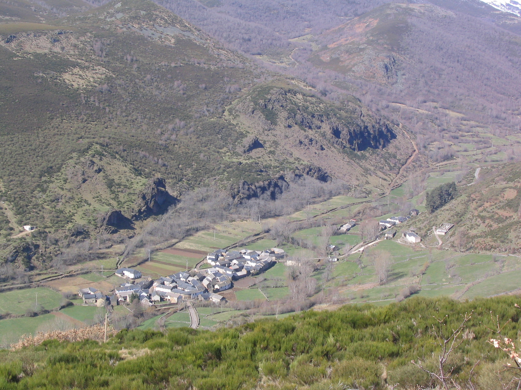 Vegapujín, León, España. View from NE. At the back side of the village we can see la Peñina, la Peñona and Peña Ferrera. Even the whole Guariza, mountain of birchs.